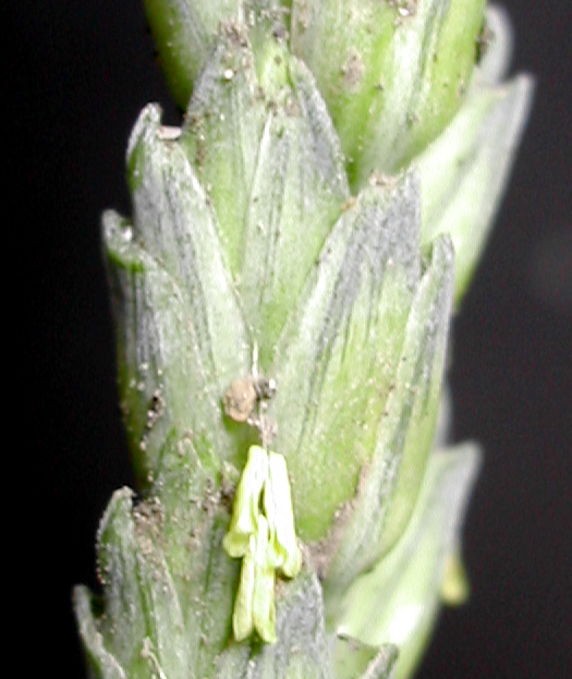 Wheat spikelet with three anthers sticking out. Mirandés: Spiga de trigo.